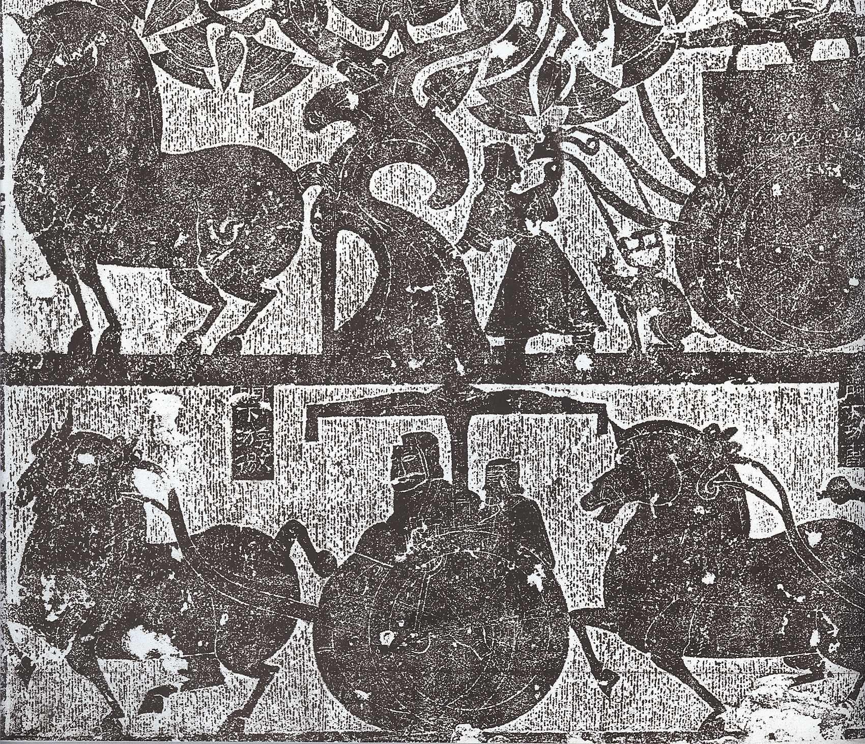 Rubbing detail of chariots and horses in Stone Chamber 1 of the "Wu Family Shrines" in Shandong Province, China, dated to the 2nd century AD, made during the Eastern Han Dynasty.